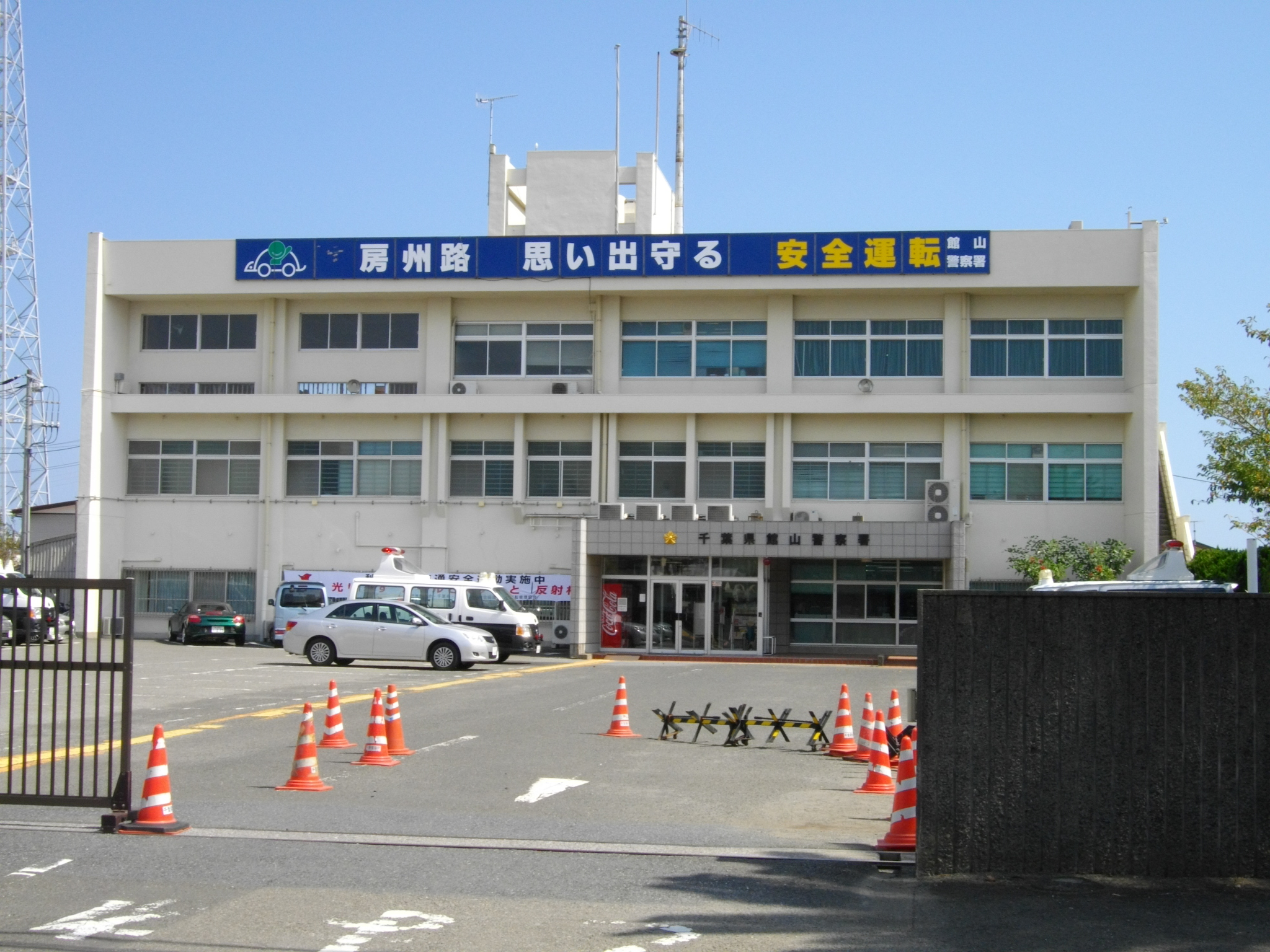 Tateyama Police Station